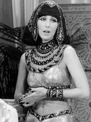 Detail of a photo of Sonny and Cher from The Sonny and Cher Show. Sonny plays an Egyptian pharaoh and Cher plays his queen in an "Egyptian Soap Opera" skit on the television program.